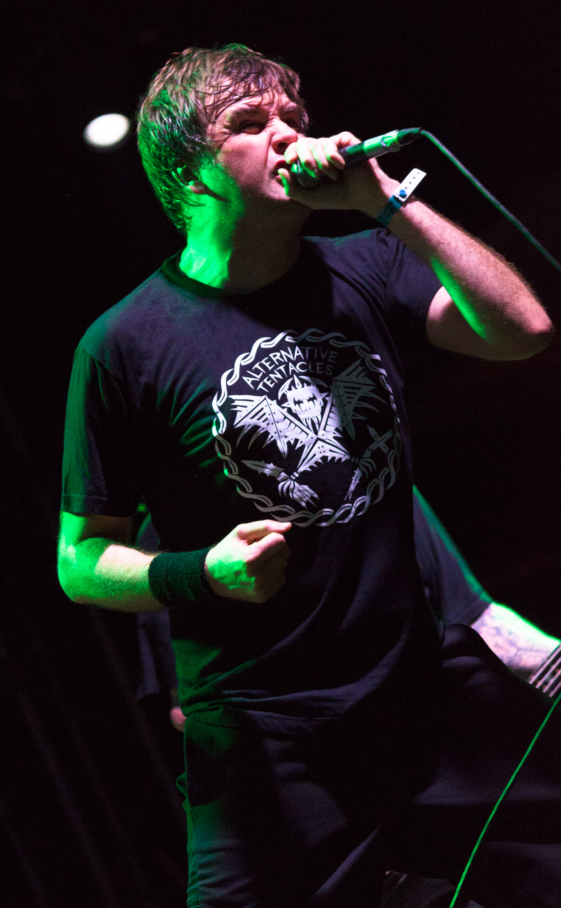 Napalm Death during the concert at the Ursynalia Warsaw Student Festiwal, Poland, 2015.